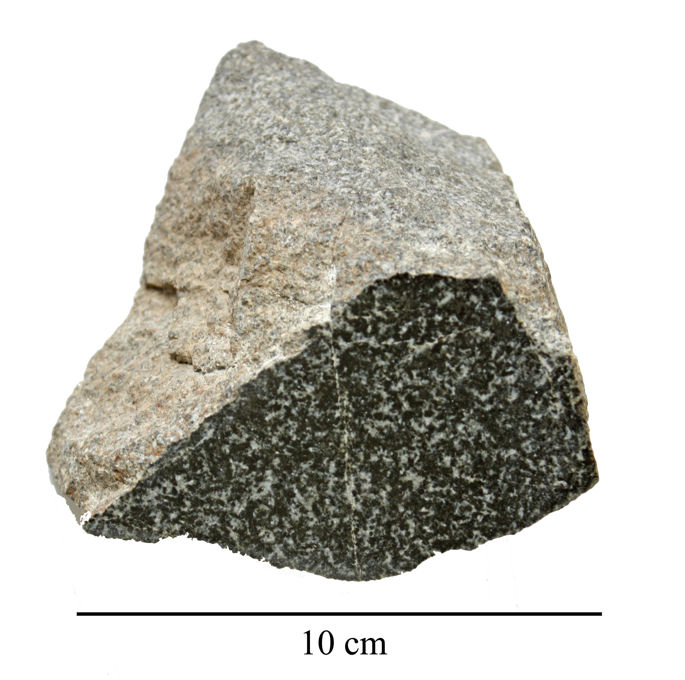 A sample of diabase with a polished surface on one side; the white minerals are plagioclase feldspar and the black are clinopyroxene.